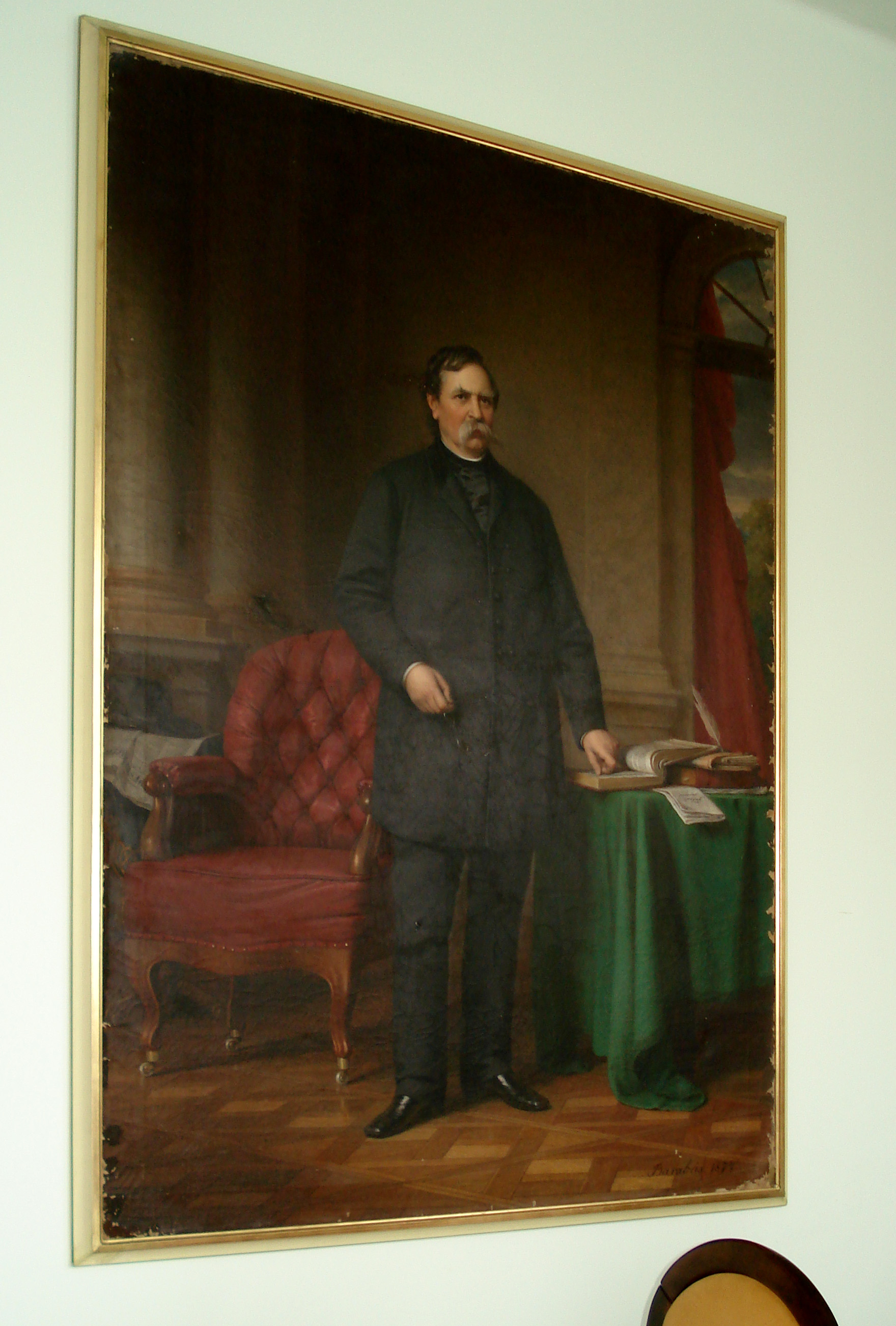 Miklós Barabás: Ferenc Deák. Hungarian Academy of Sciences Regional Committee in Miskolc, Hungary